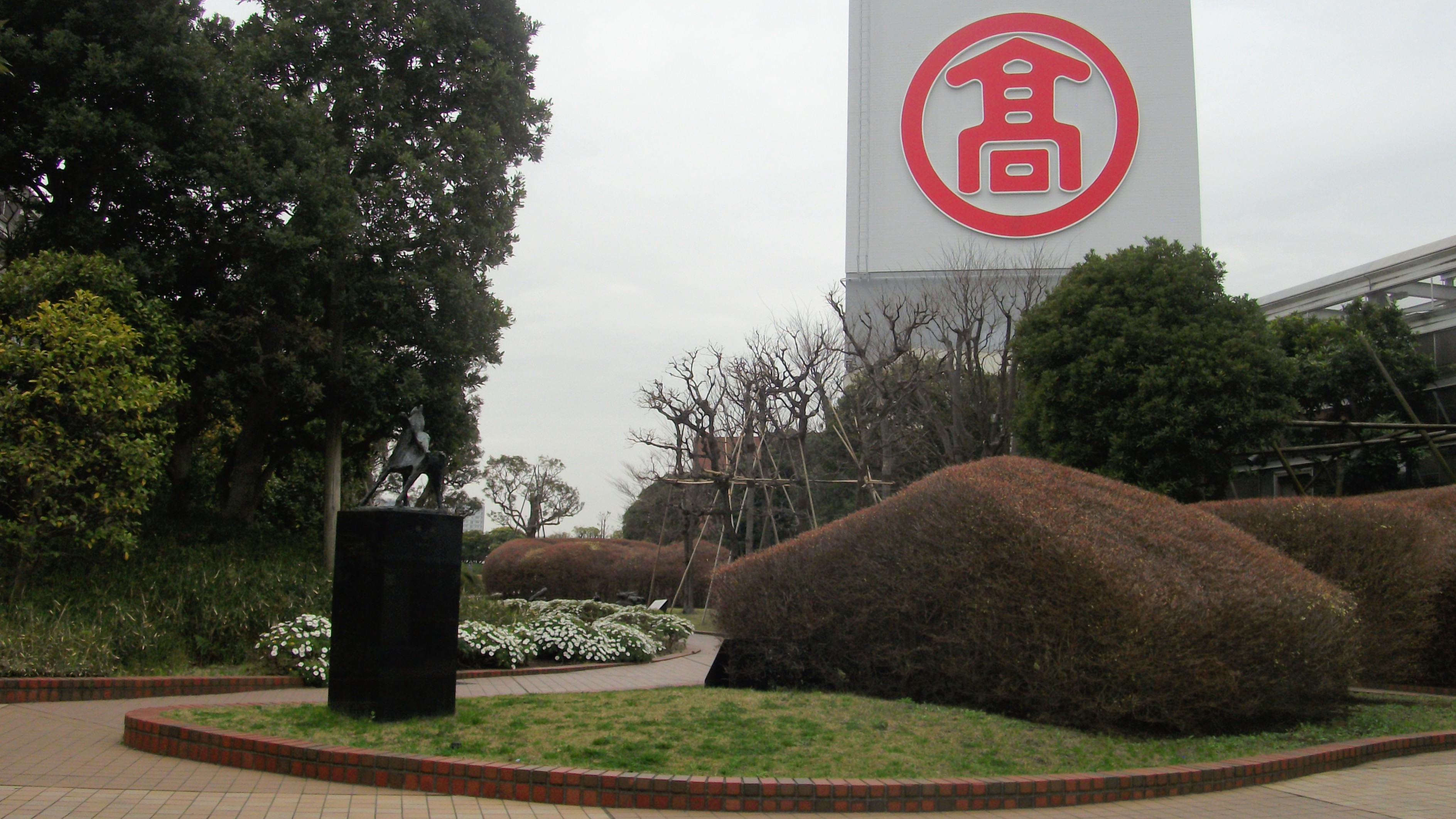 ”Joinus no Mori Sculpture Park” at Sotetsu Joinus on roof floor.